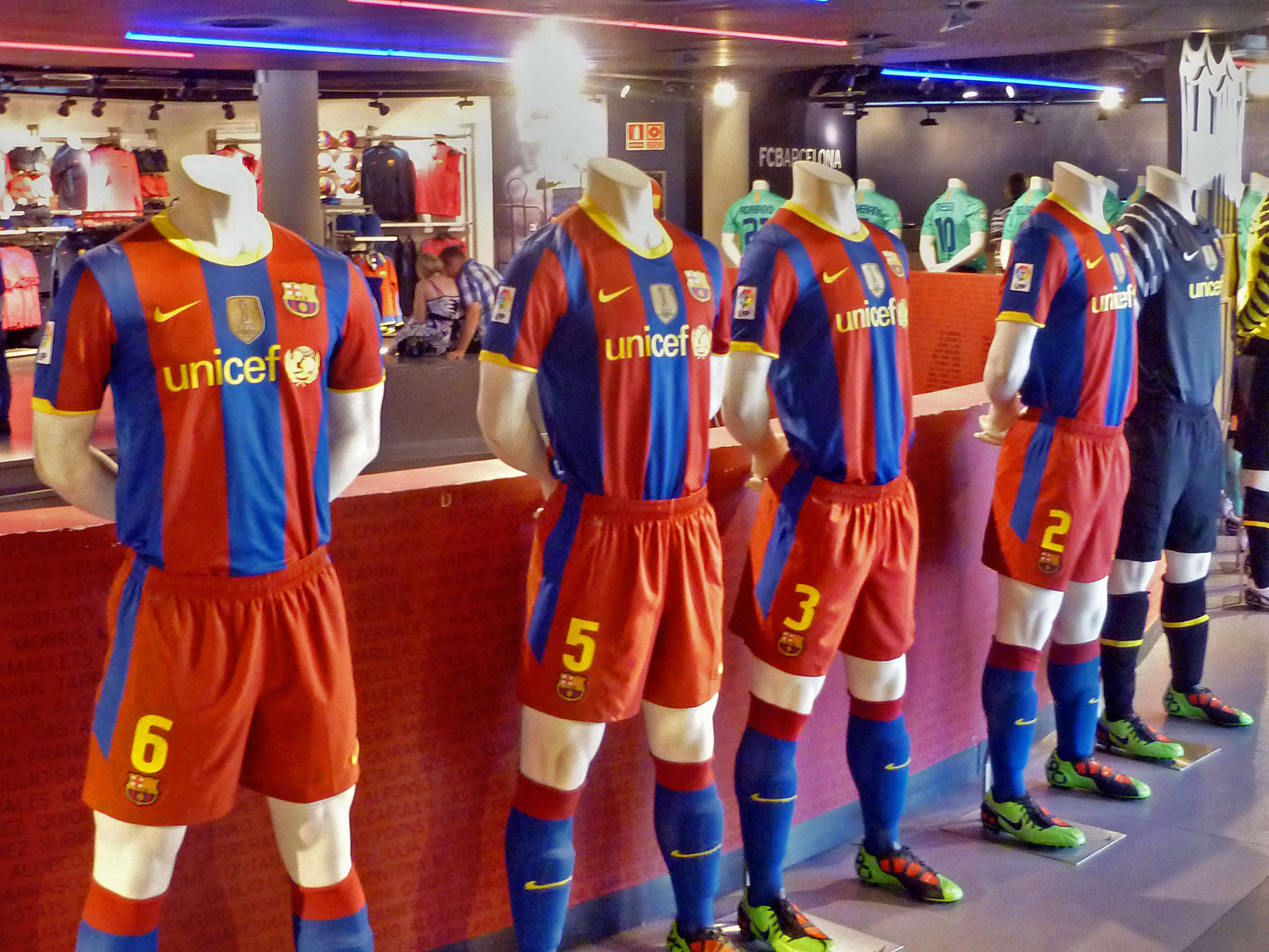 Outfit of the players of FC Barcelona, Barcelona, Catalonia, Spain